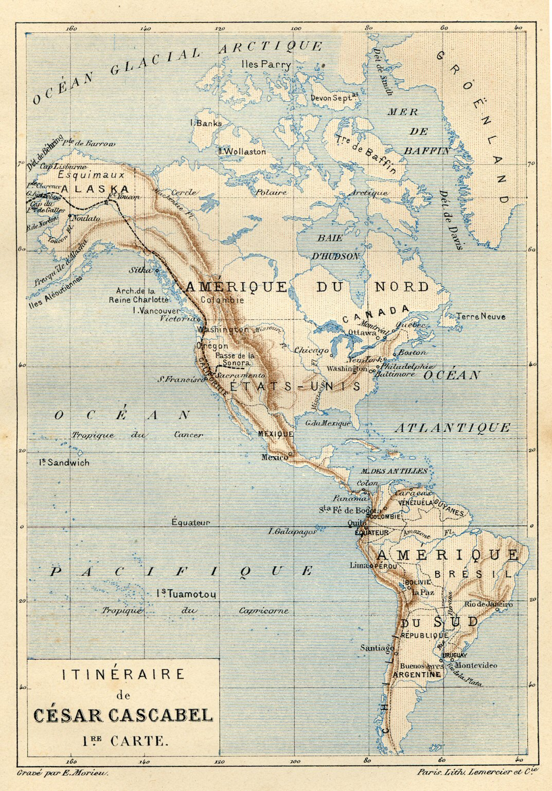 An illustration from Jules Verne's novel "César Cascabel" (1890) drawn by George Roux.